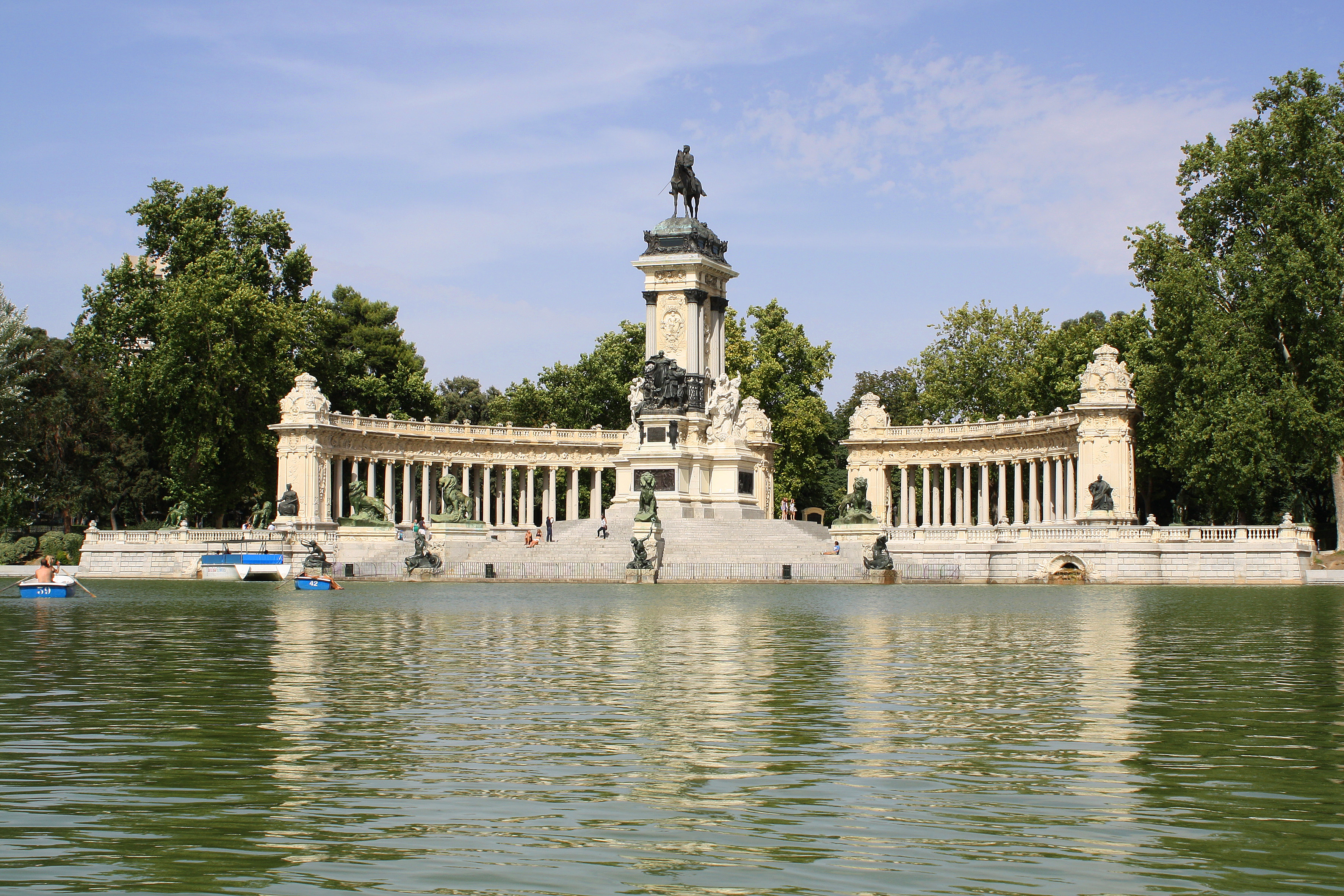 Monument to Alfonso XII, Buen Retiro Park (El Retiro), Madrid, Spain